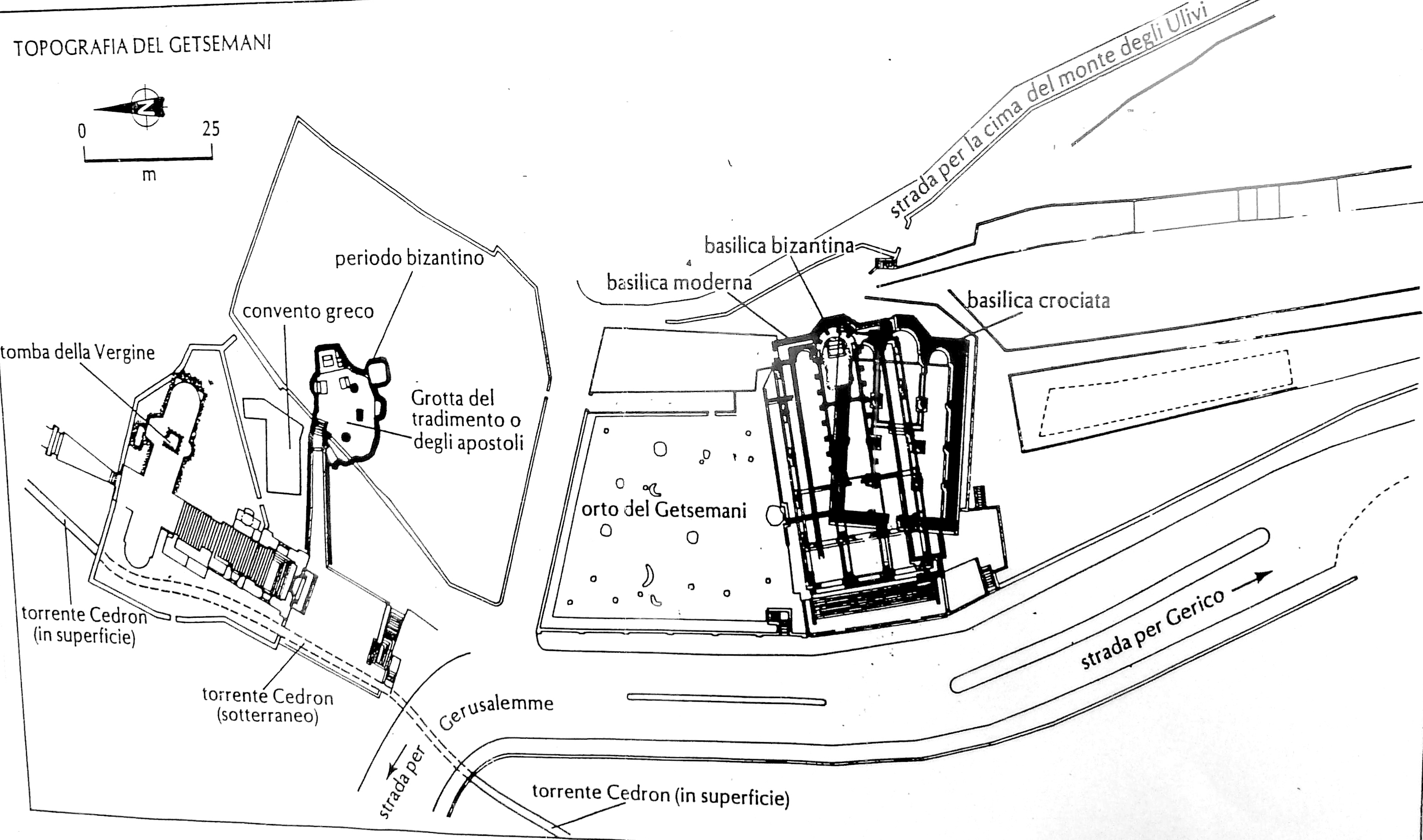 Gethsemane. Jerusalem, Israel